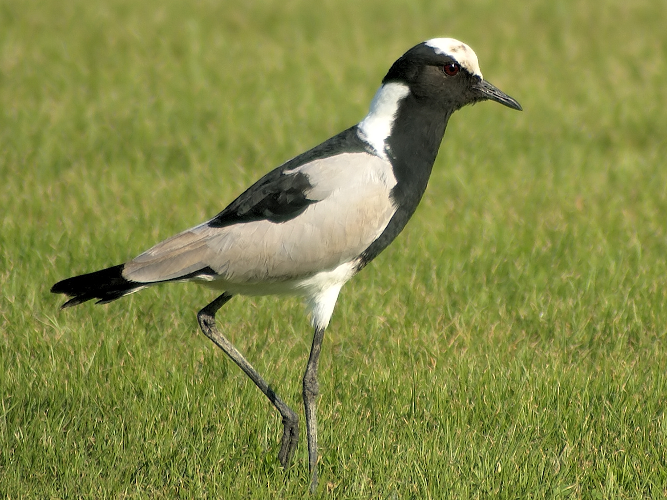 Blacksmith Plover , at Walvis Bay, Namibia.Cropped version for use in taxoboxes.